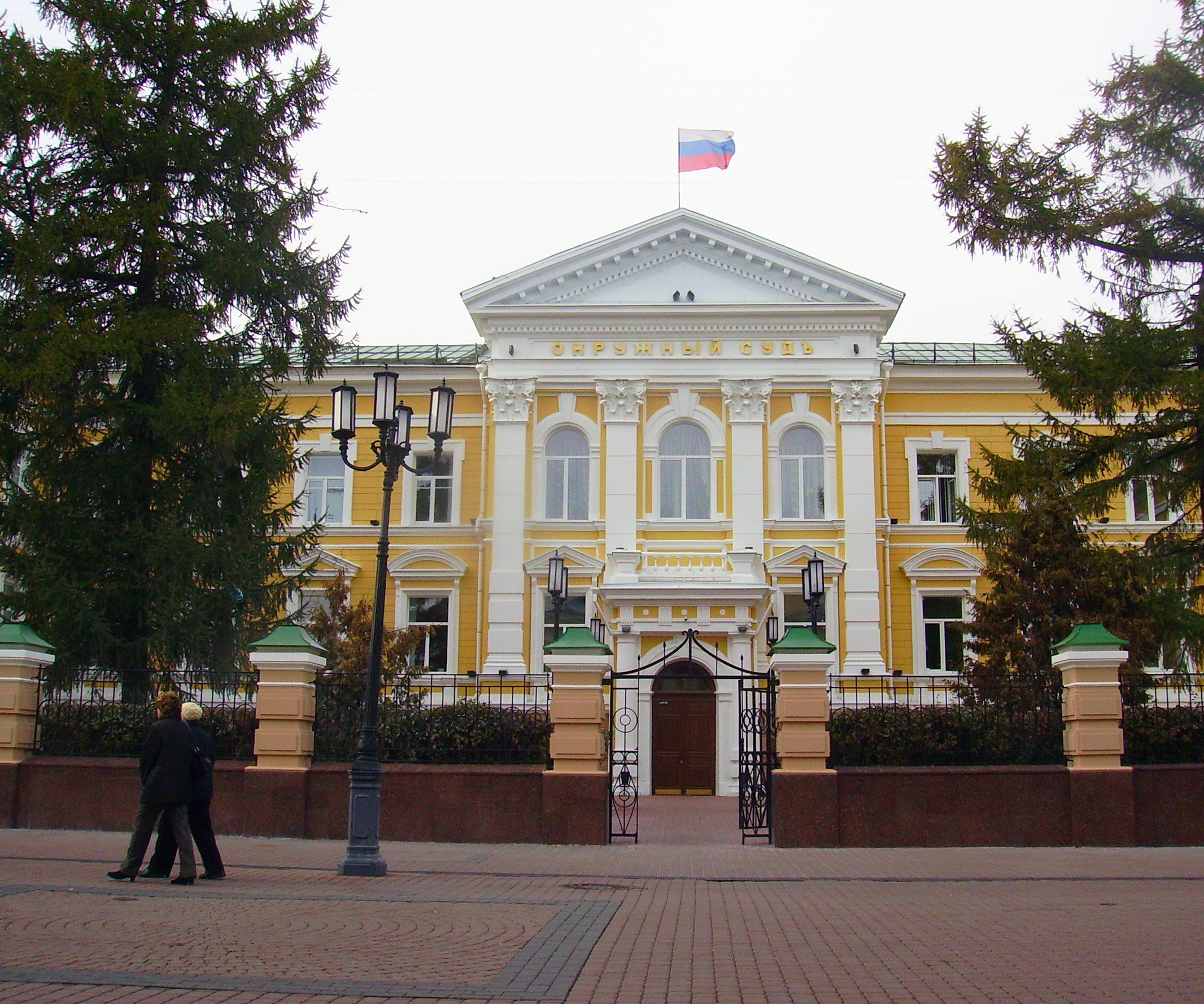 Court of Nizhny Novgorod Oblast, was built in 1896.